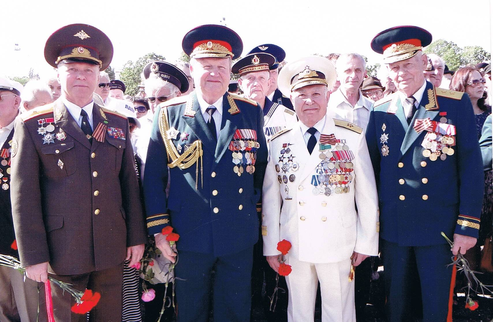 Victory Day (Russia) 2013